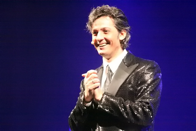 Italian showman Fiorello